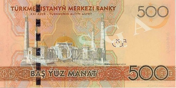 500 manats of Turkmenistan (2009)